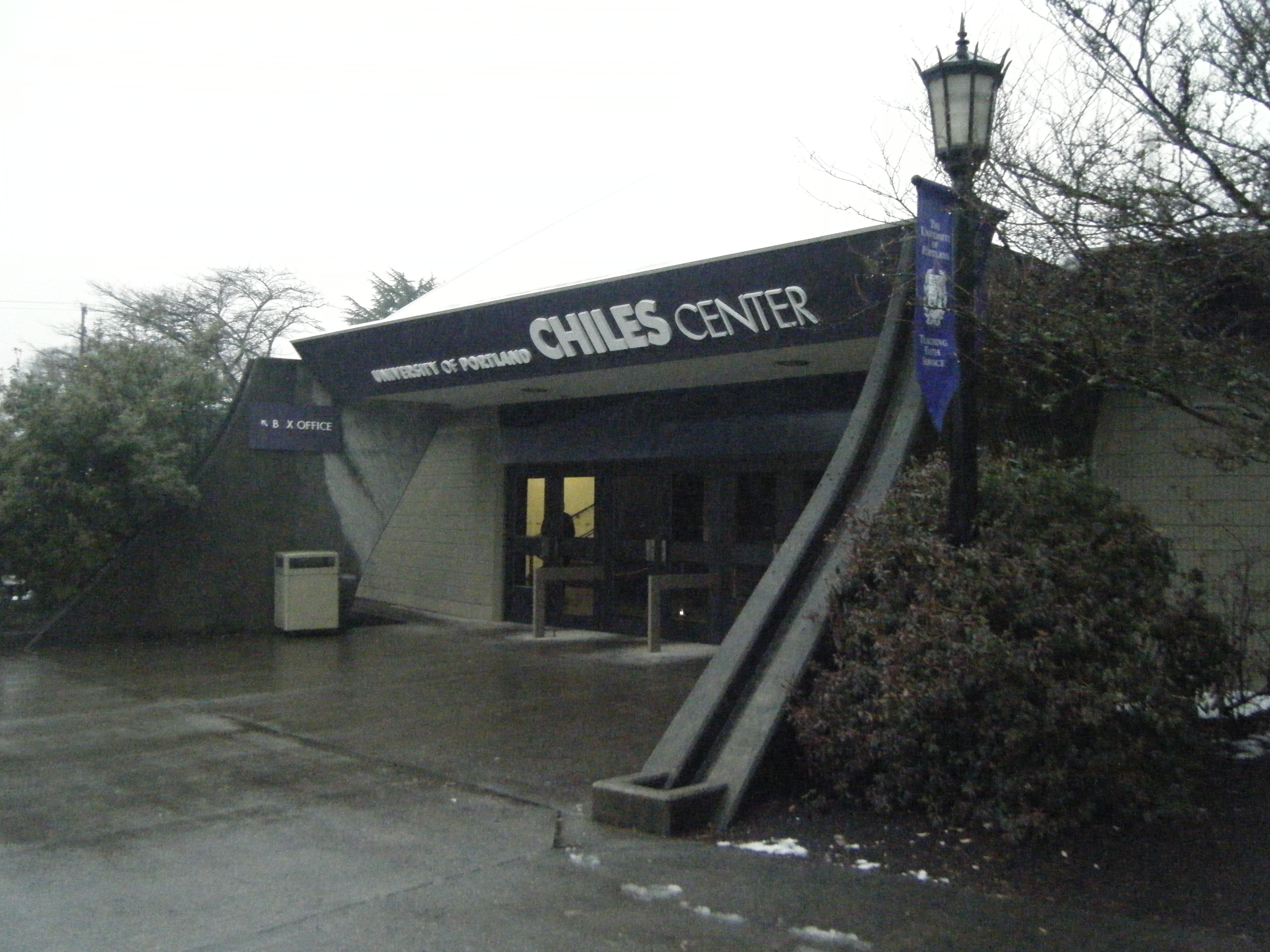 The Chiles Center entry, taken on December 31, 2009.